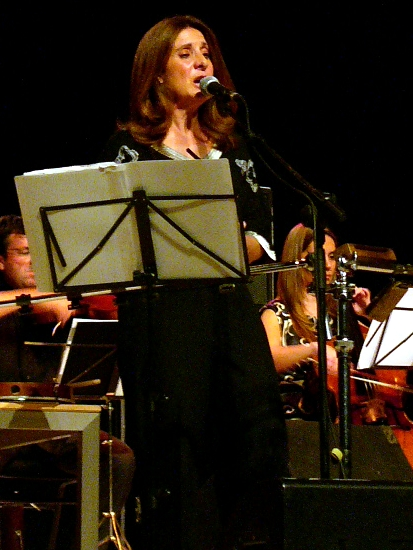 singer Llanos Monreal performing with Nuevo Mester de Juglaría in Castelló